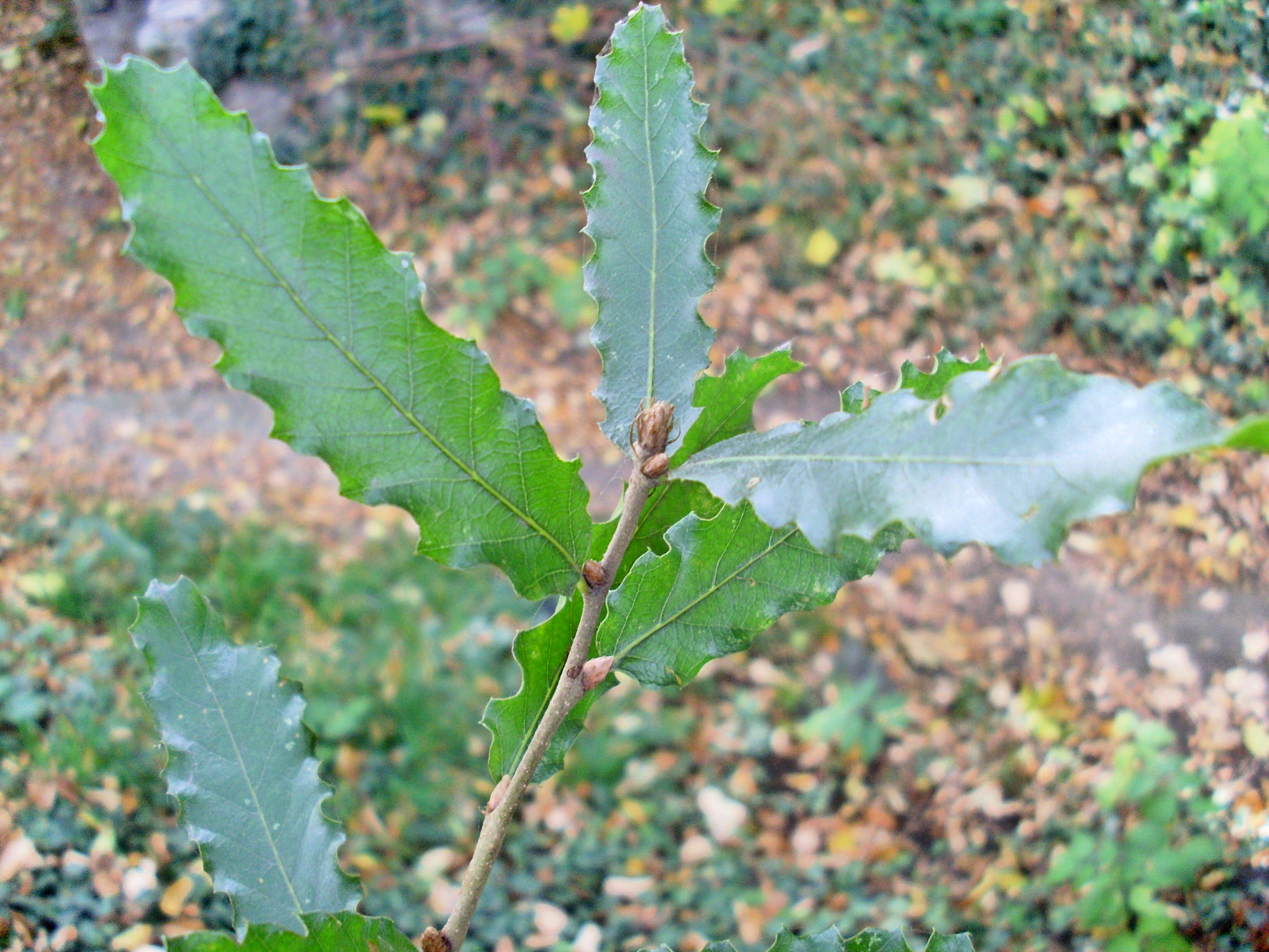 Leaf from Quercus trojana